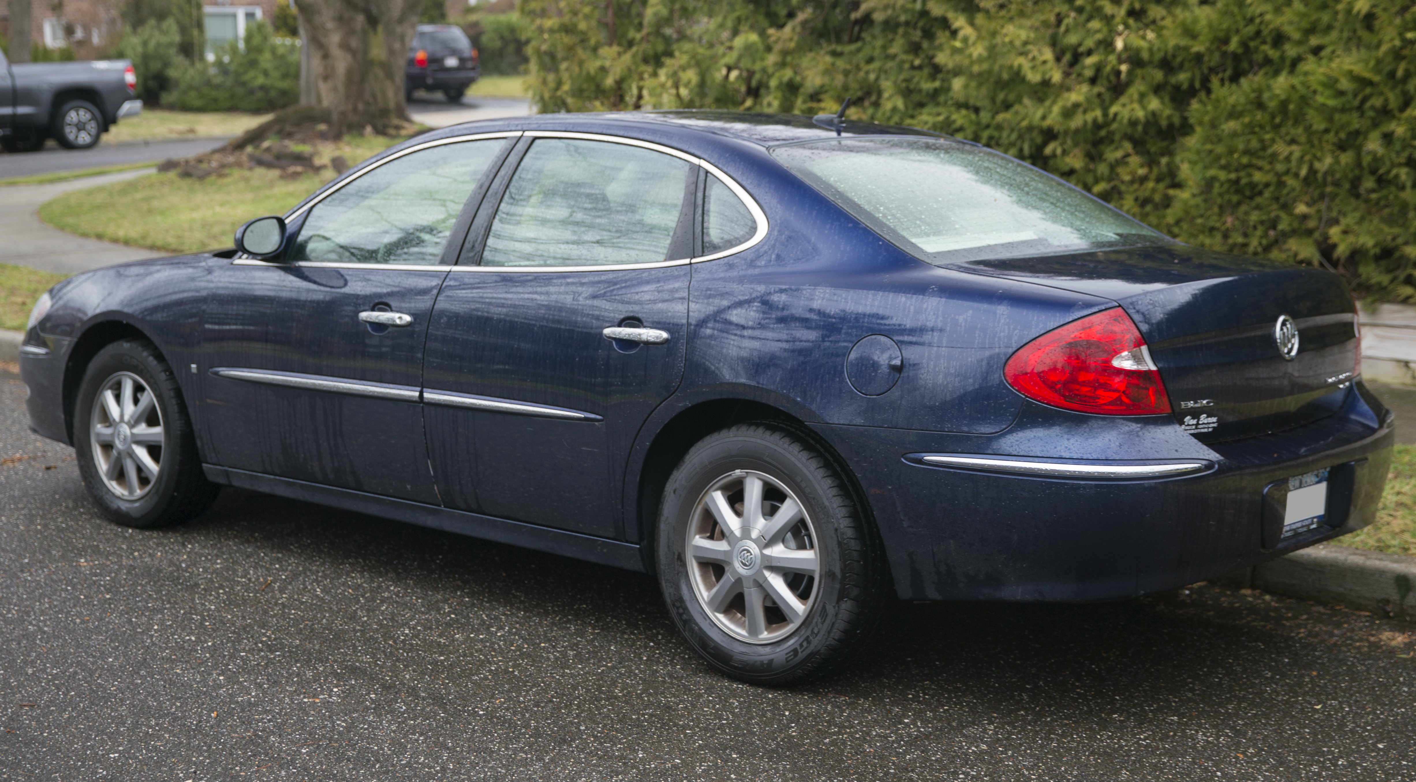 A 2009 Buick LaCrosse CXL with the usual 3.8-liter V6 (L26). Built in Oshawa 2, Ontario, Canadia.